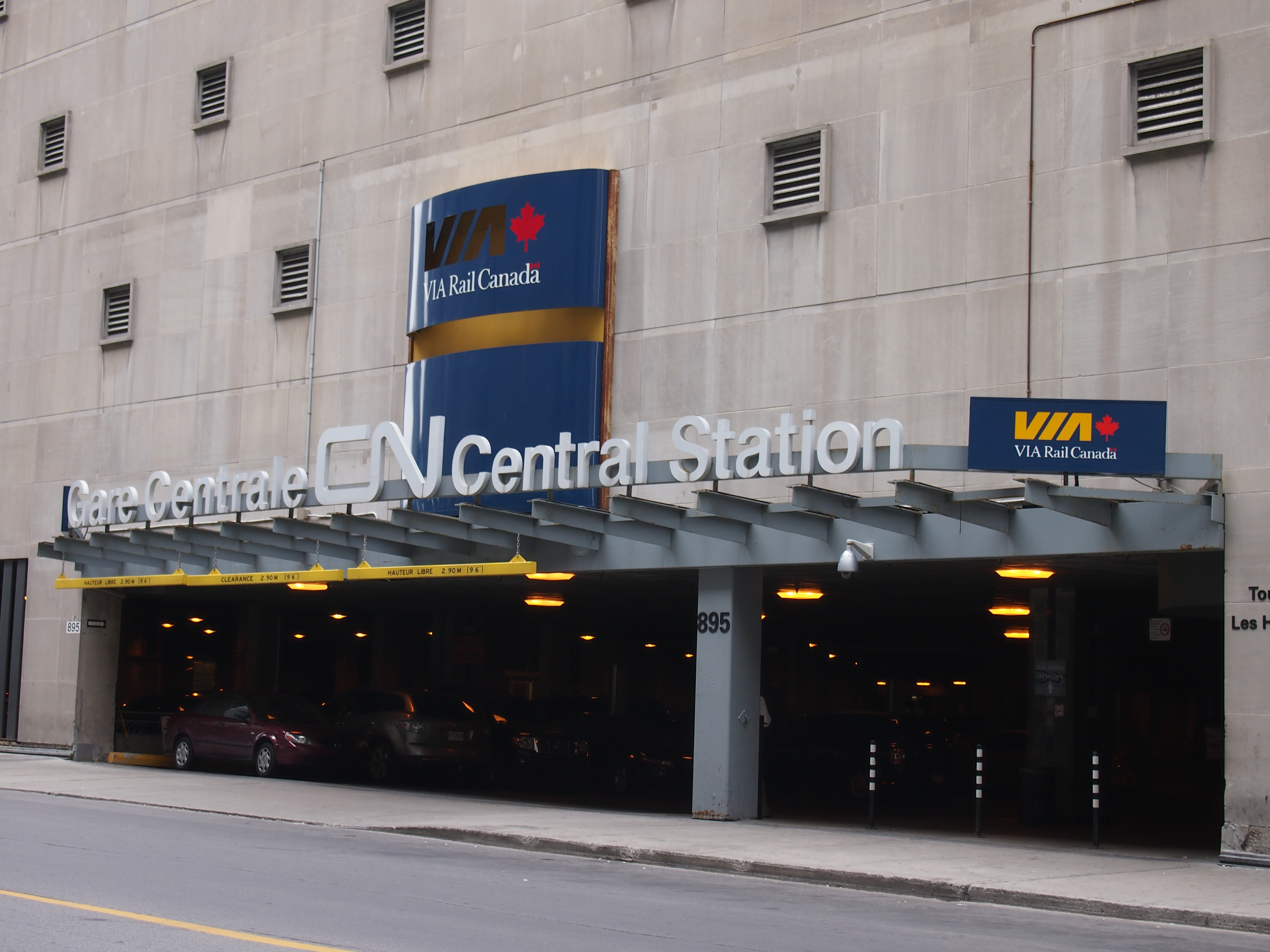 Front of the Gare Centrale on de la Gauchetière.